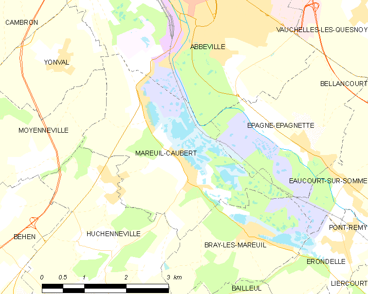 Map of French municipality Mareuil-Caubert